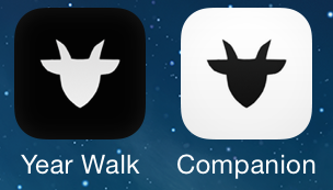 Icon od the Year Walk game and Year Walk Companion (iOS)